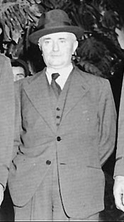 Cropped to show Darlan only. Original caption, Negotiations at Algiers, 13 November 1942. Left to right, General Eisenhower, Admiral Darlan, Maj. Gen. Mark W. Clark, and Mr. Robert Murphy of the US. State Department. (National Archives)